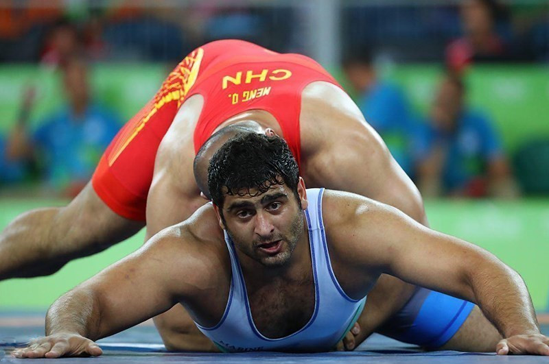 2016 Summer Olympics, Greco-Roman Wrestling 130 kg. Bashir Babajanzadeh (down, from Iran) vs Neng (China, in red)